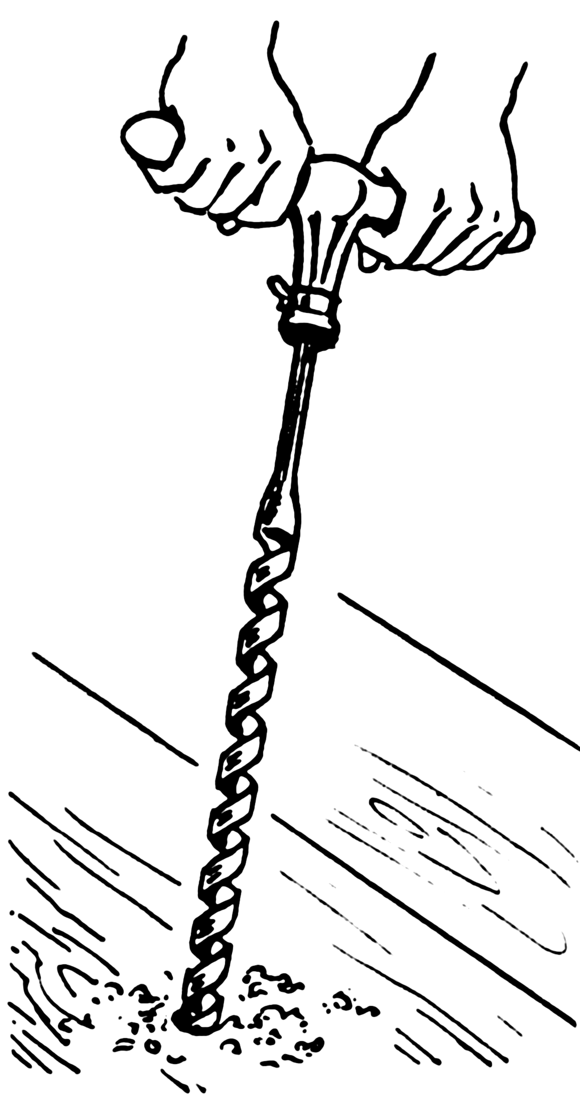 Line-art drawing of an auger.